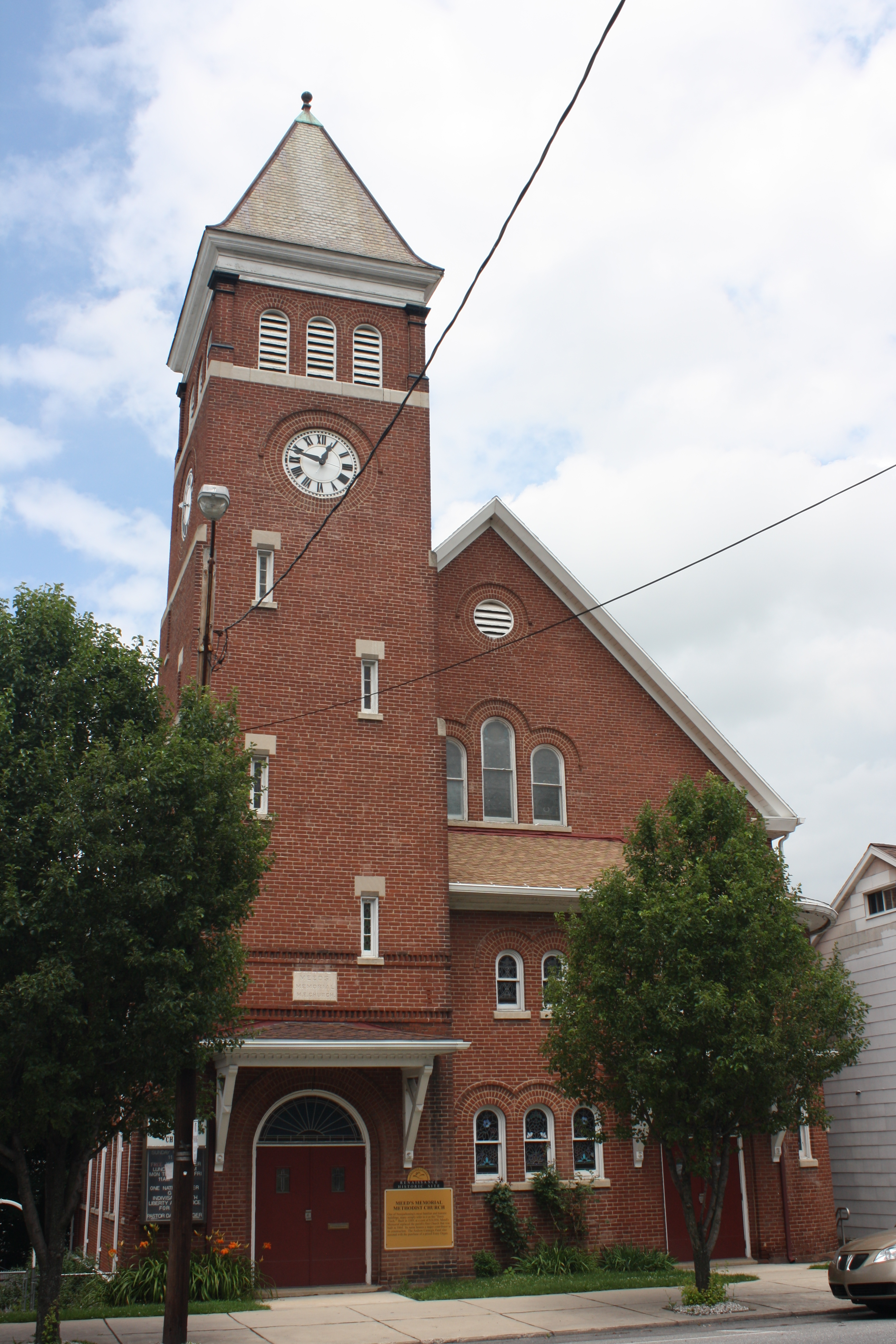 Meeds Memorial United Methodist Church - 132 West Catawissa Street, Nesquehoning, PA